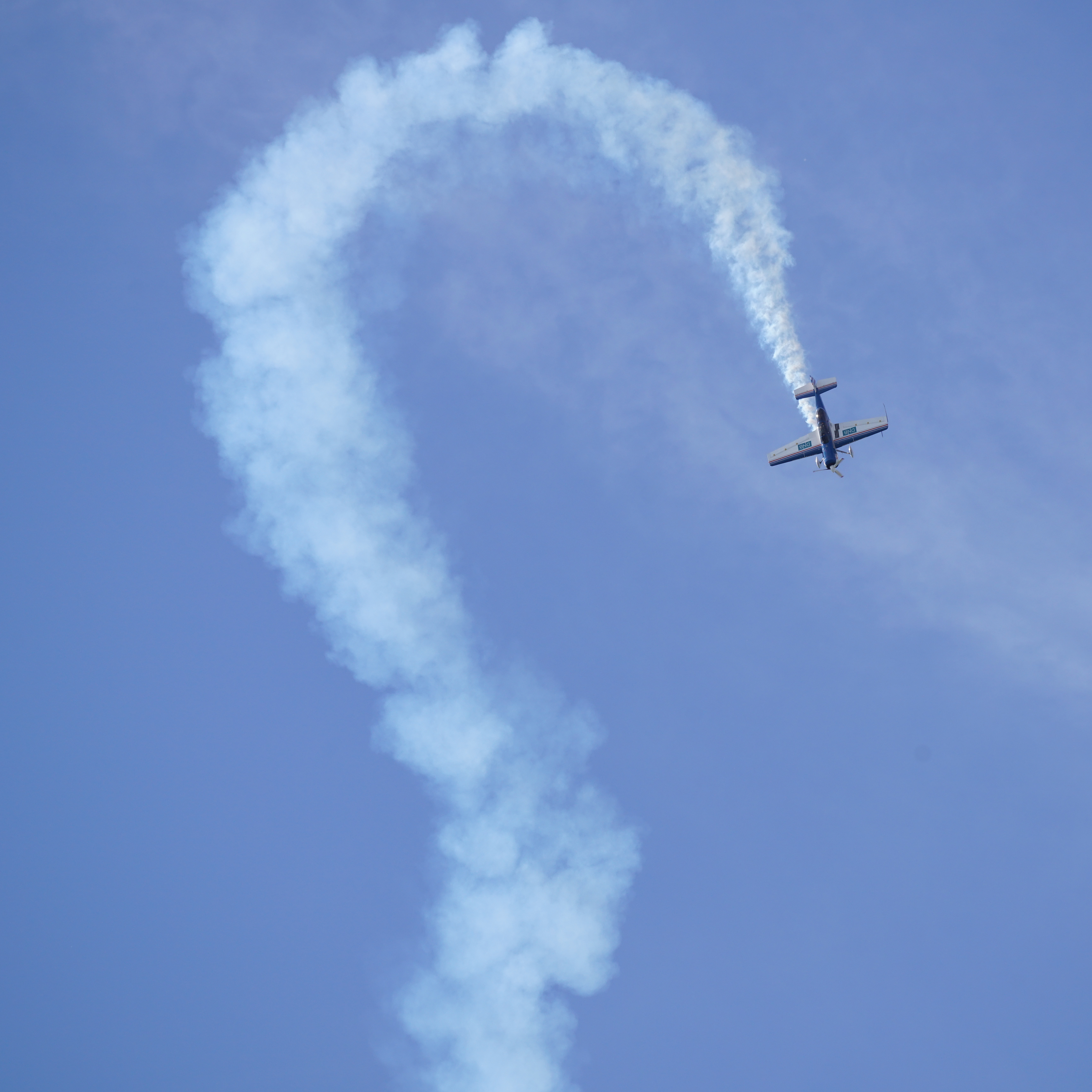 Su-29 aerobatic plane performing a stall turn (hammer head maneuver) at the air show in Uppsala, Sweden, 2018.